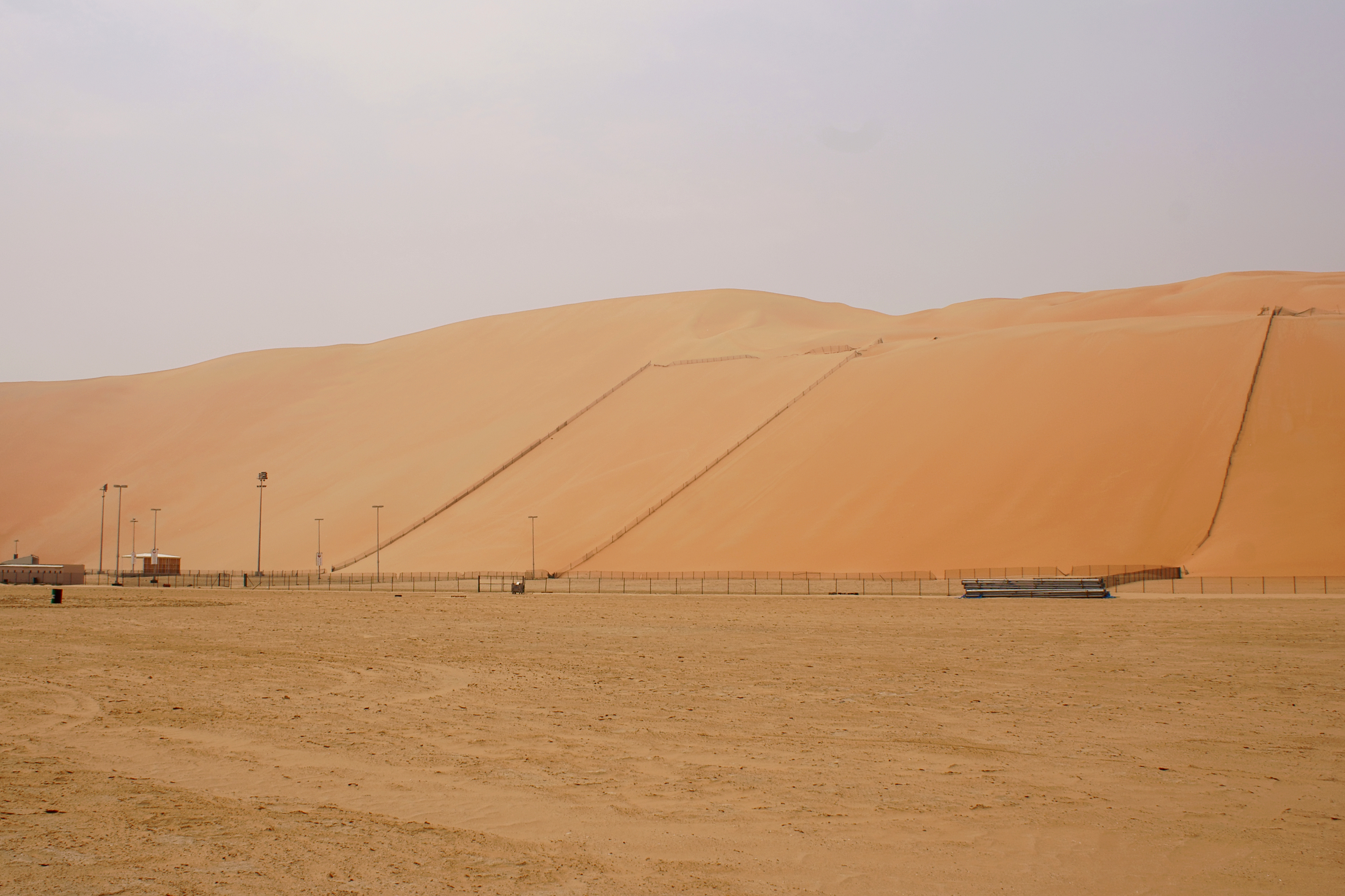 Moreeb dunes in the United Arab Emirates.